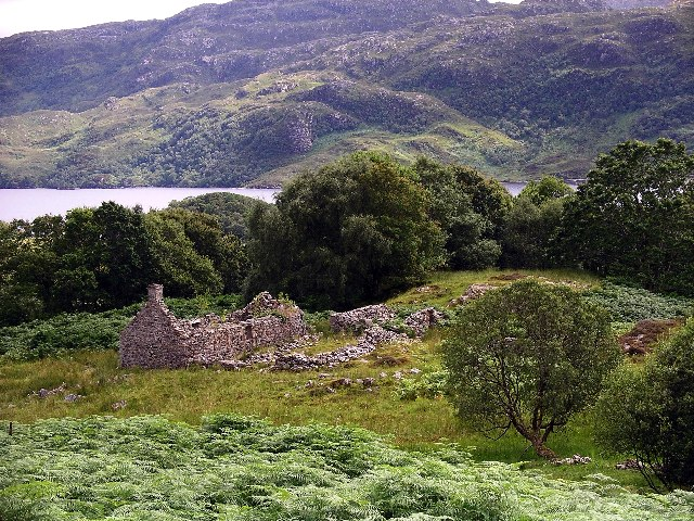 Ruin at Brinacory. An abandoned croft on the north shore of Loch Morar.